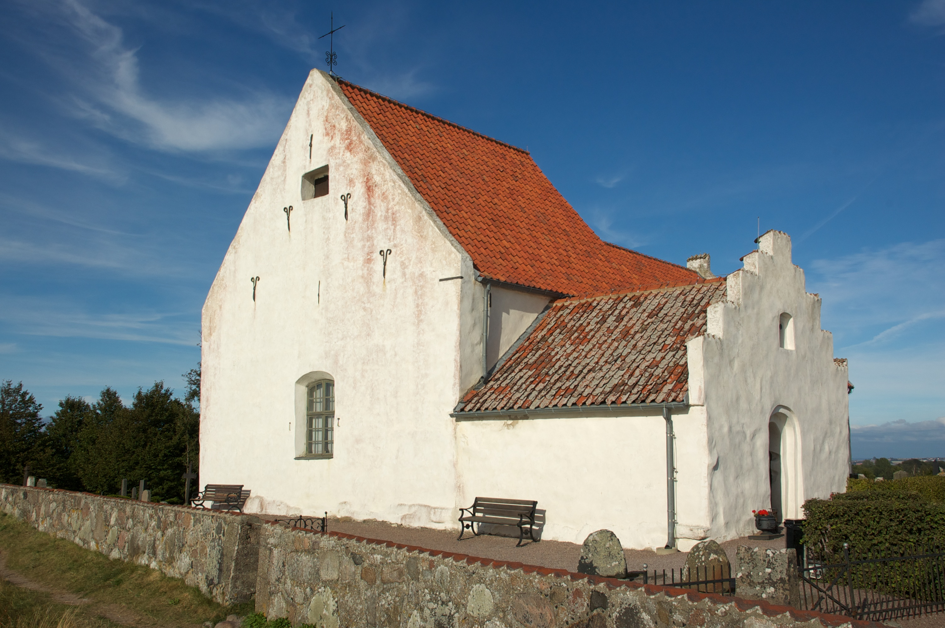 Old church St. Ibb in Ven, Landskrona, Sweden